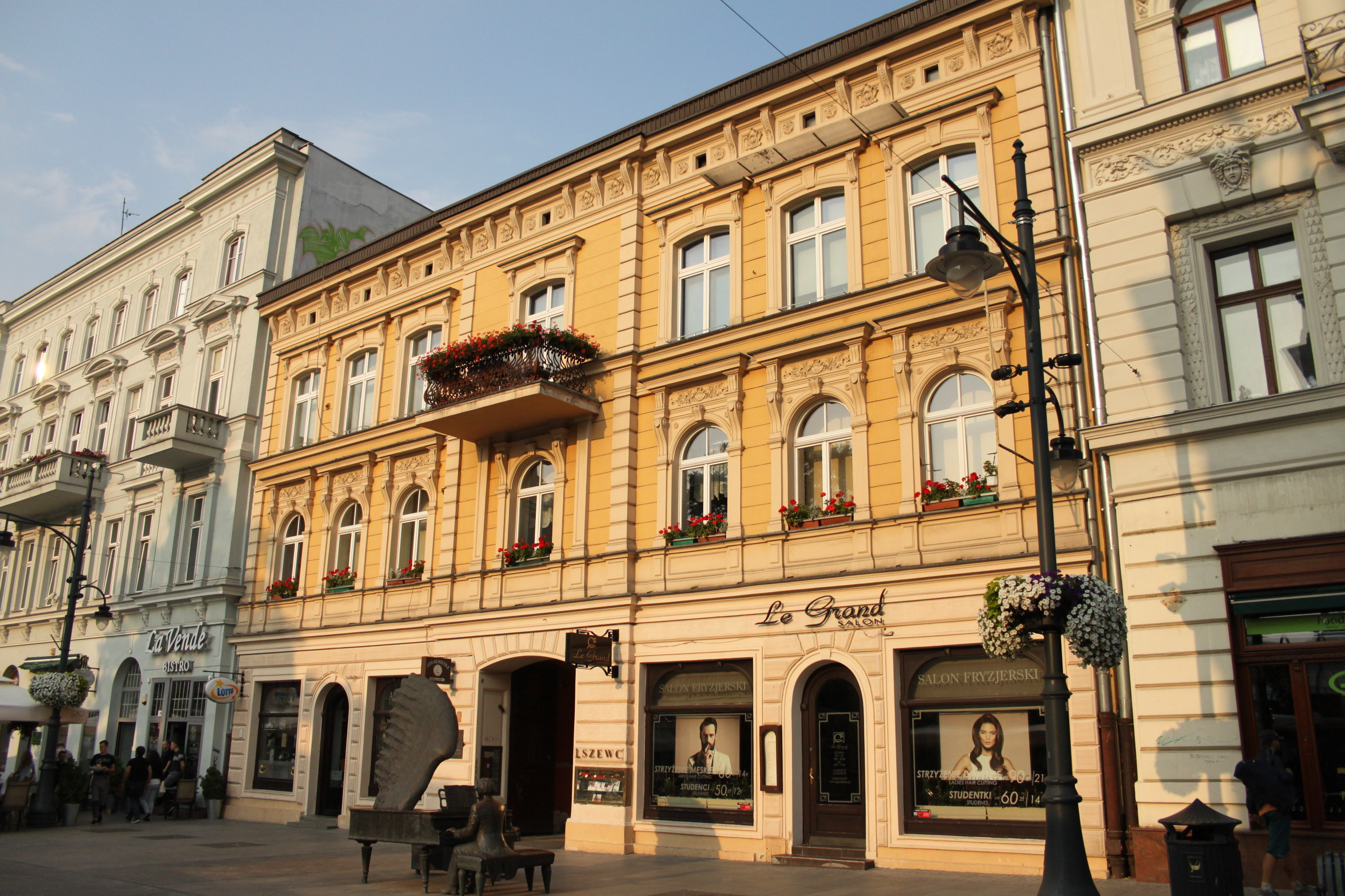 78 Piotrowska Street in 2017